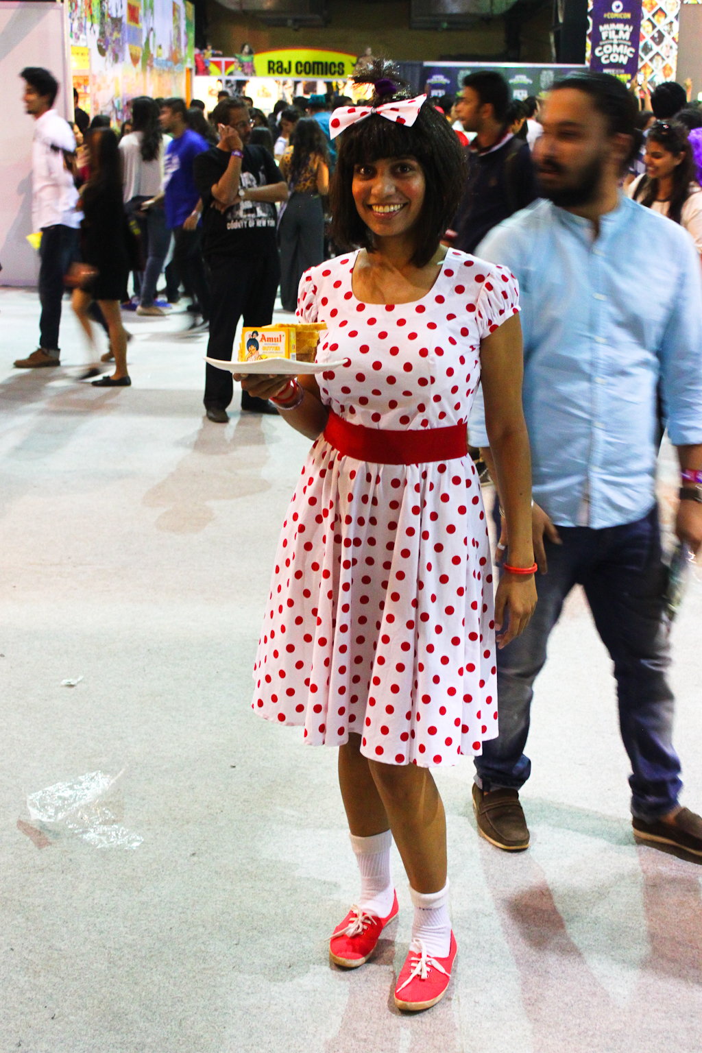 Cosplay of the Amul Girl (mascot of the Amul dairy company) at the Mumbai Film and Comic Con 2014. This one was one unique and inventive costume, super cute